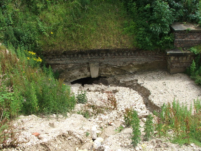 Drewton Tunnel West Portal, Low Hunsley, East Riding of Yorkshire, England.The last visible parts of the Western portal of the 1 mile 354 yard long Drewton Tunnel on the dismantled Hull & Barnsley Railway which was closed in 1959. Sadly, quarrying works in the area have meant that most of the tunnel entrance has been buried by landfill in recent years.